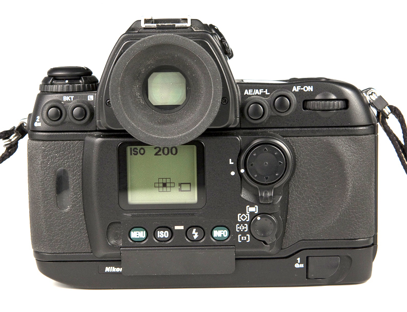 SLR Nikon F6 back